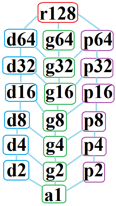 hexacontatetragon symmetries